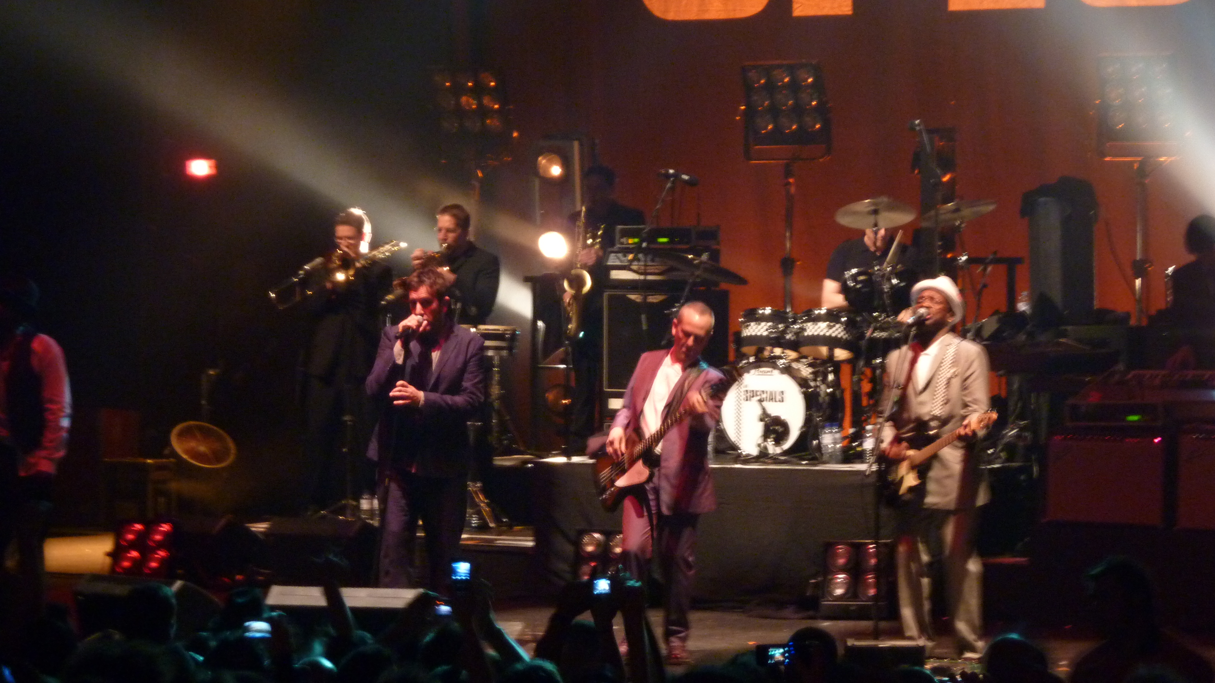 The Specials at Brixton Academy May 2009